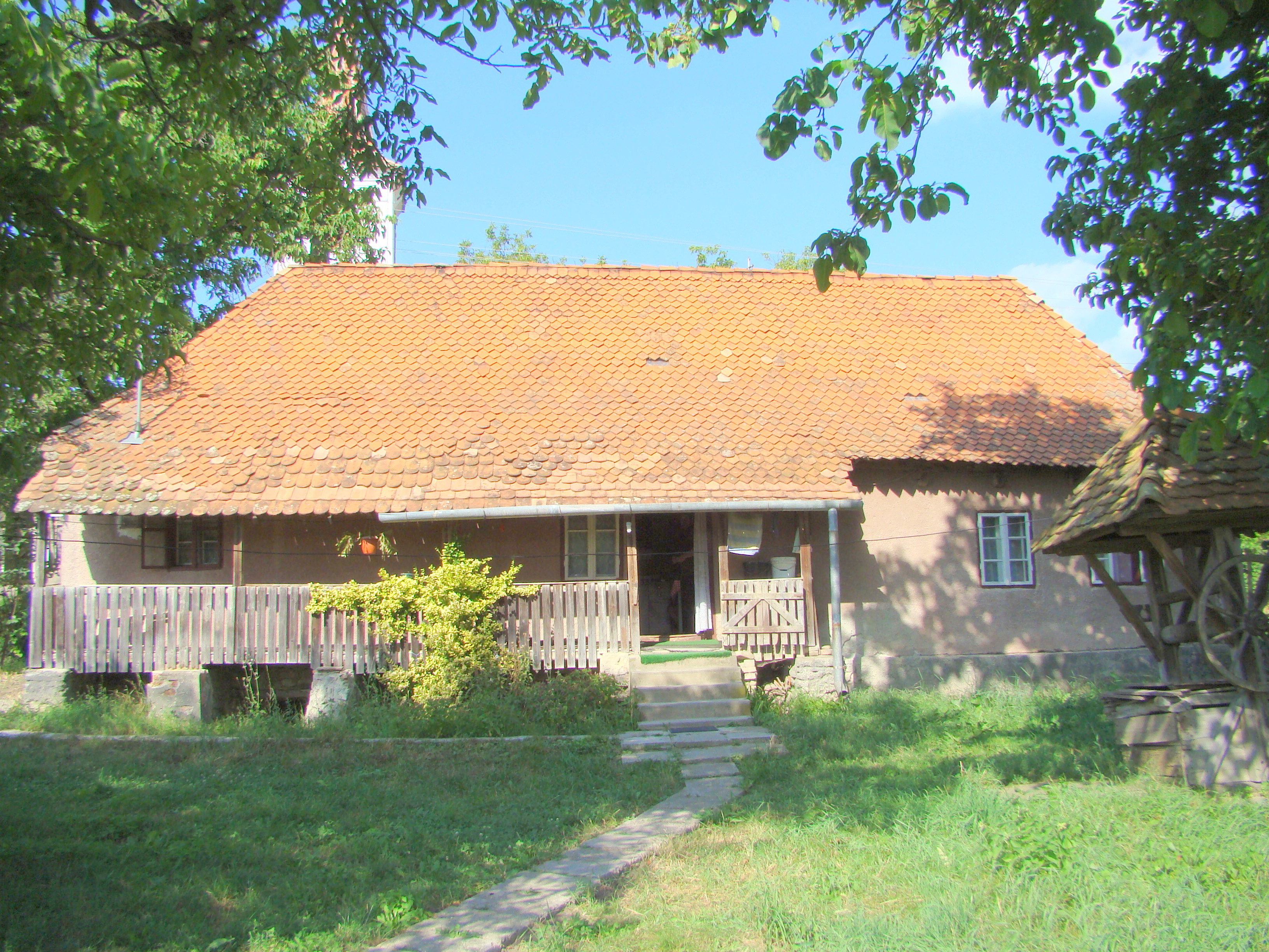 Former Greek Catholic parish house in Porumbenii Mari, Harghita county, Romania